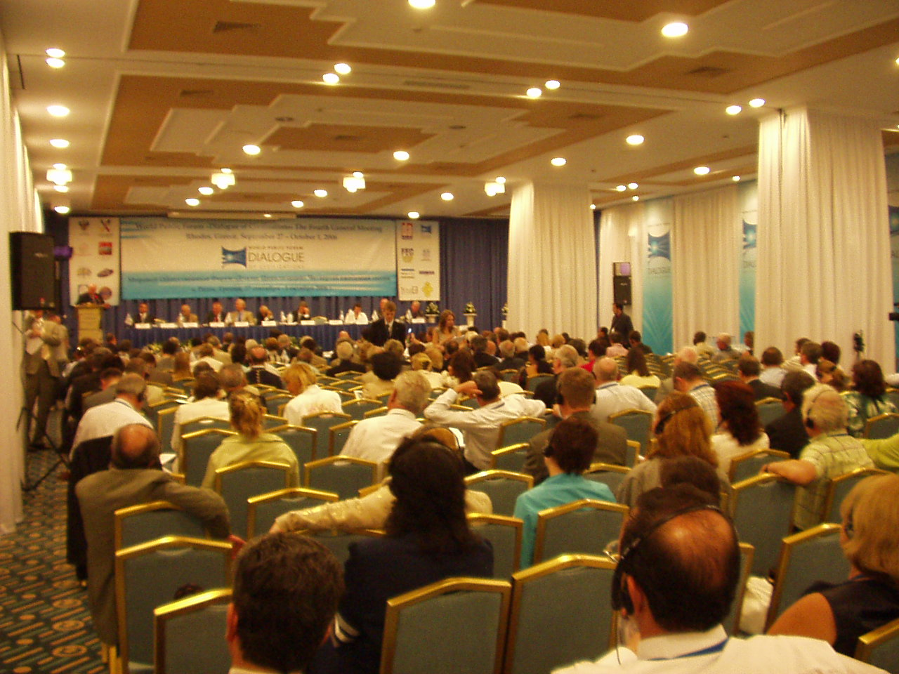 Dialogue of Civilizations 2006